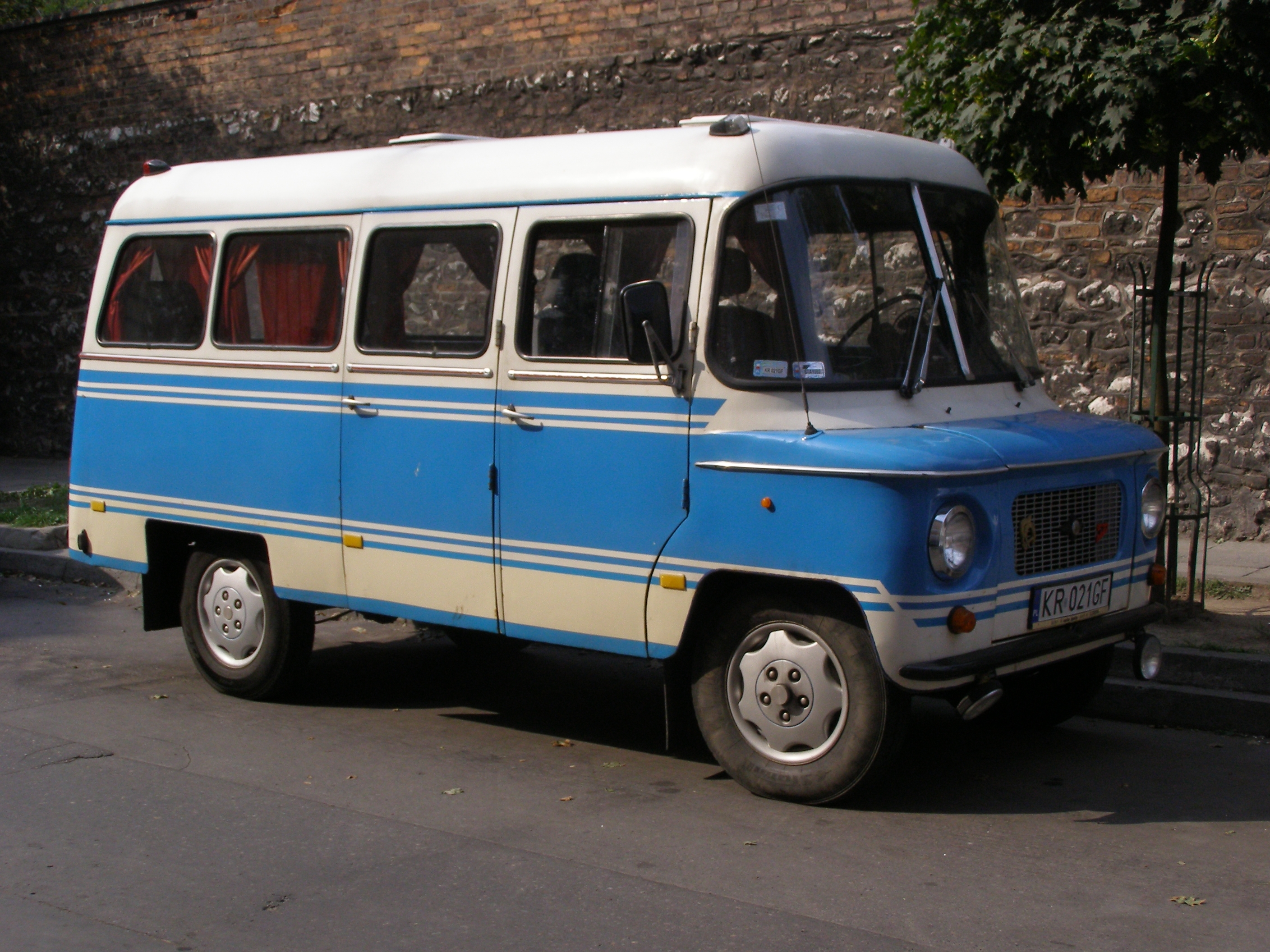 Kraków - Jabłonowskich str., Nysa 522